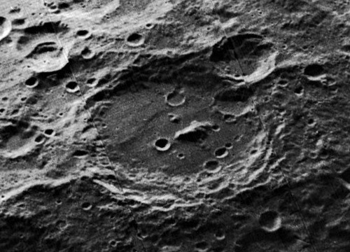 Oblique view of Stebbins, on the far side of the moon, facing southwest.